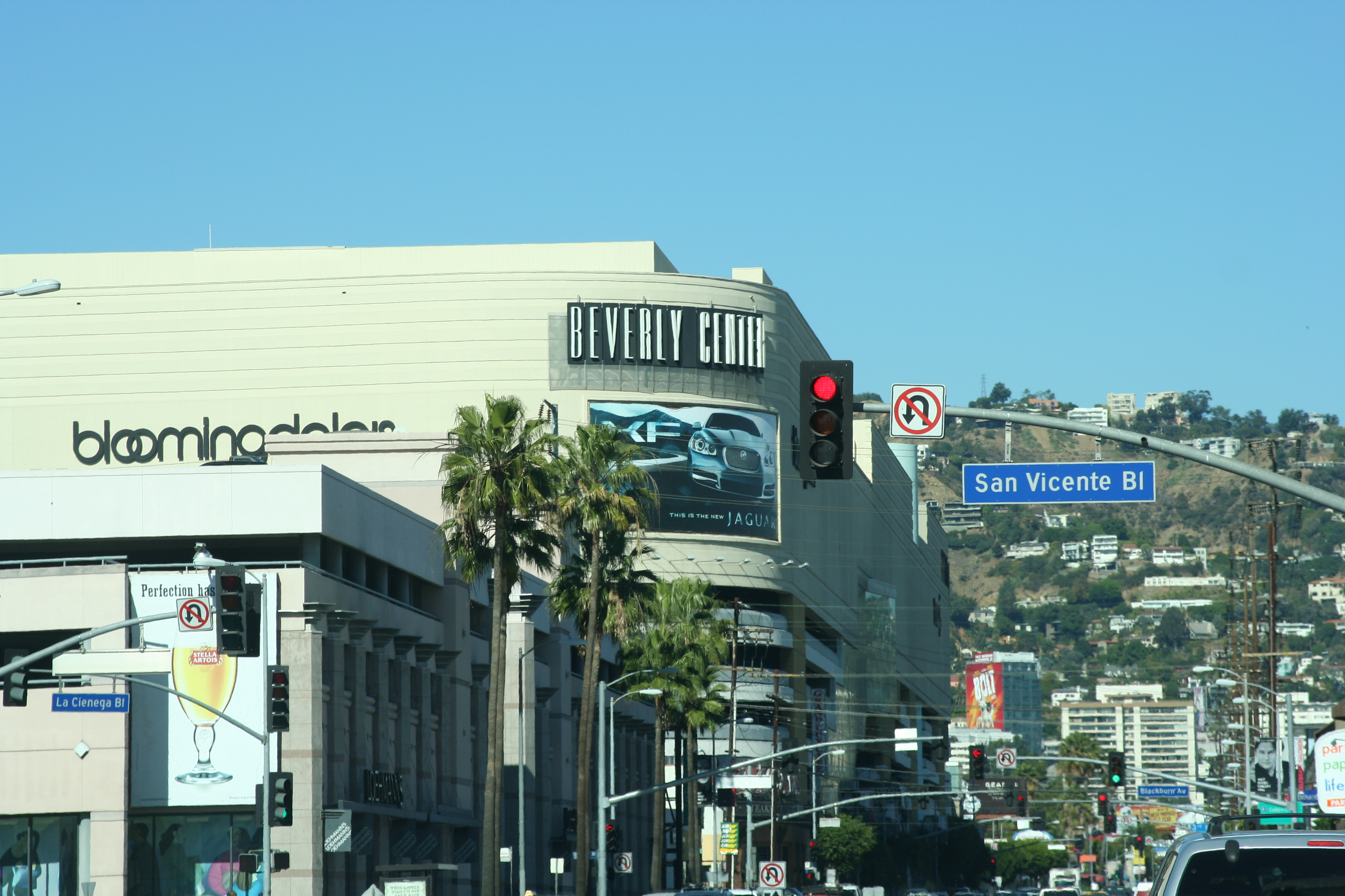 Beverly Center from La Cienega looking up to the West Hollywood Hills. By ChildofMidnight, make sure to attribute my work.